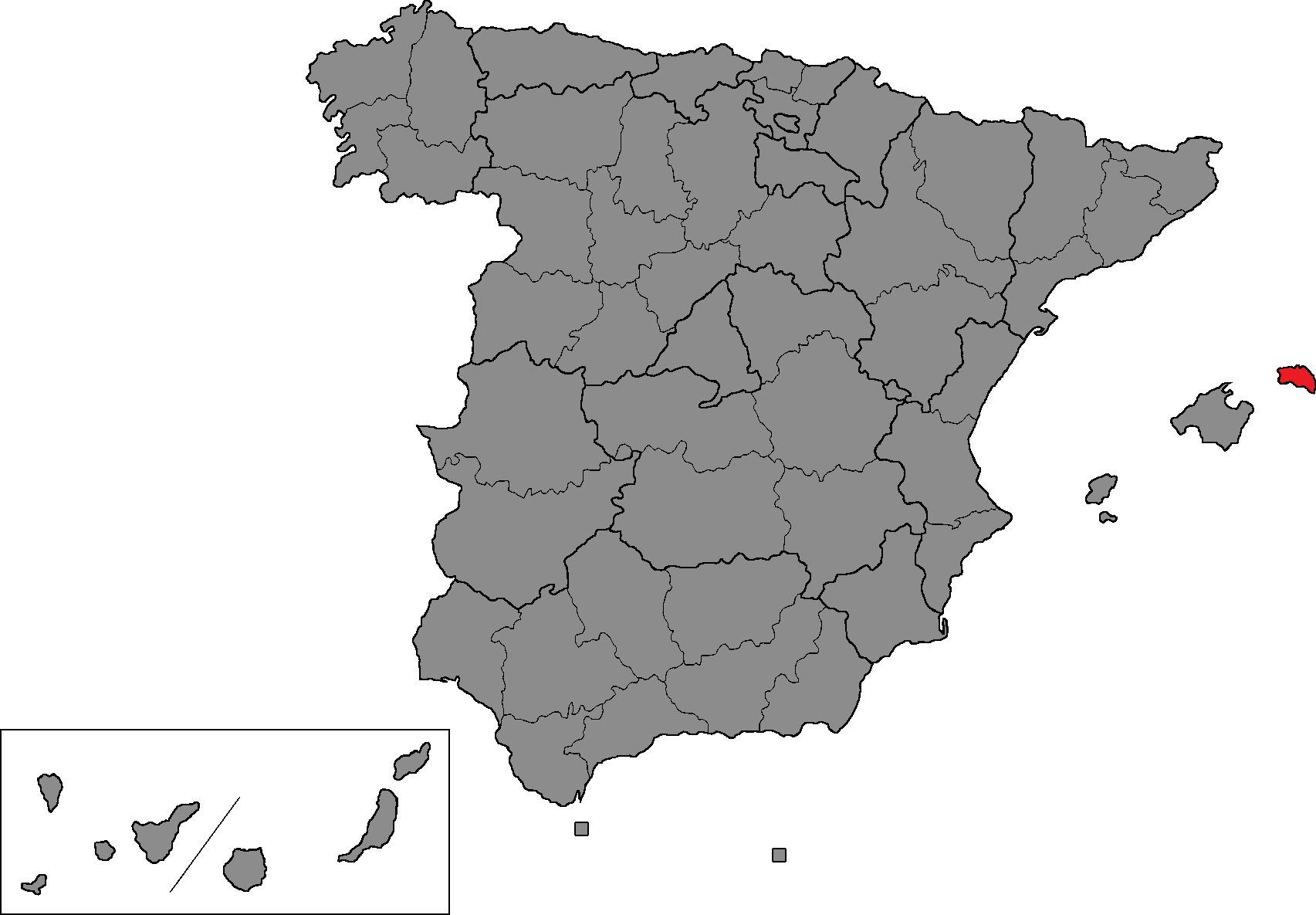 Spanish Senate district of Menorca.